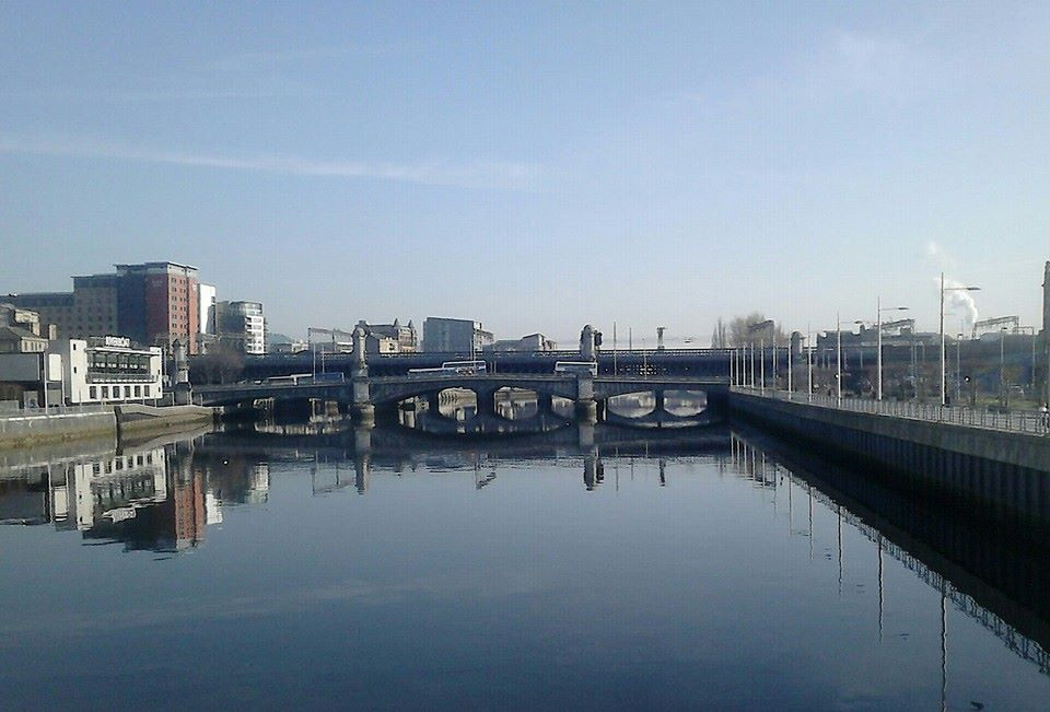 George V Bridge Wikidata has entry Q5545426 with data related to this item.